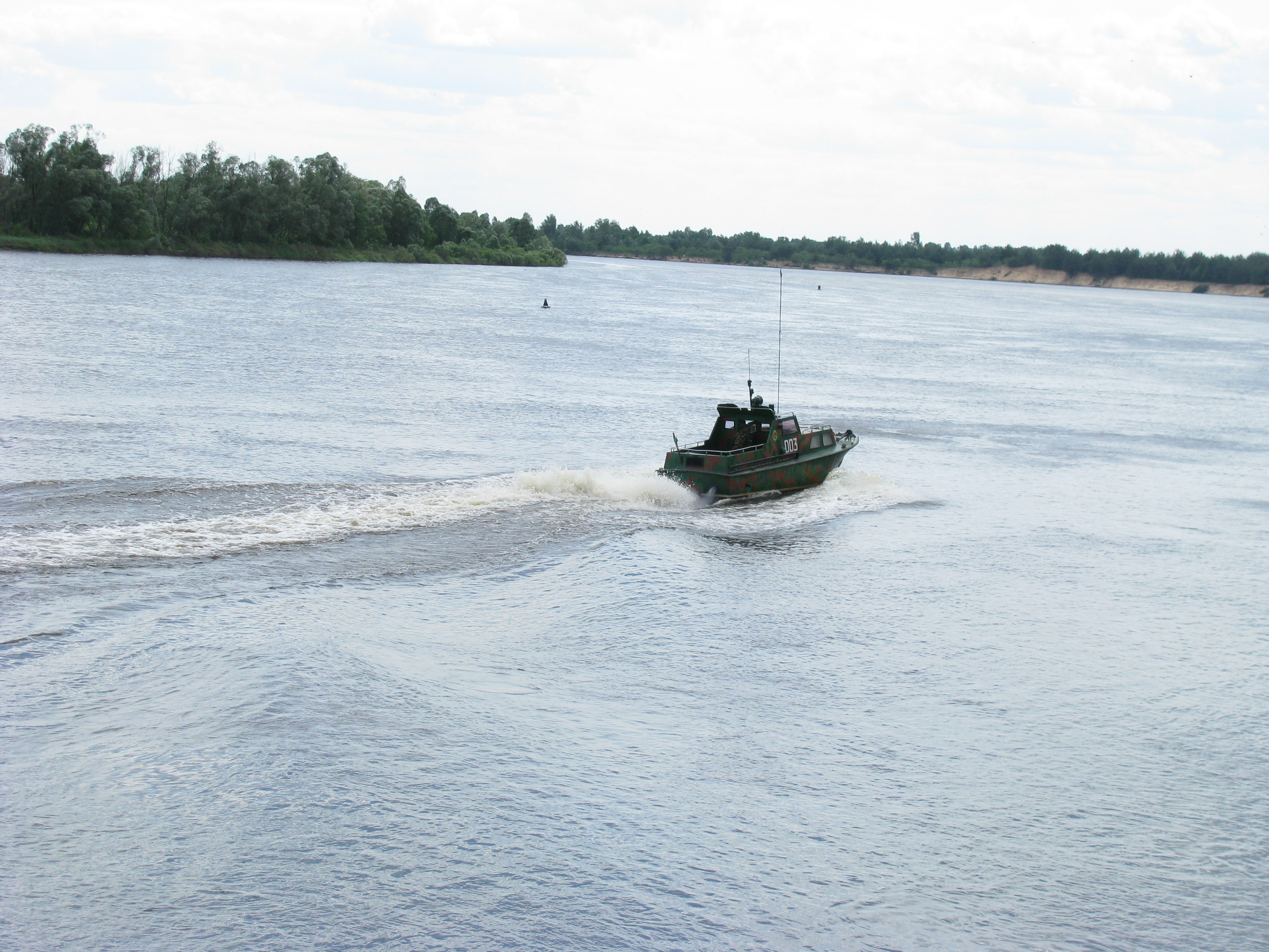 Ukrainian Sea Guard[1] riverboat on the Dnieper River patrolling the border with Belarus near the latter's Brahin district